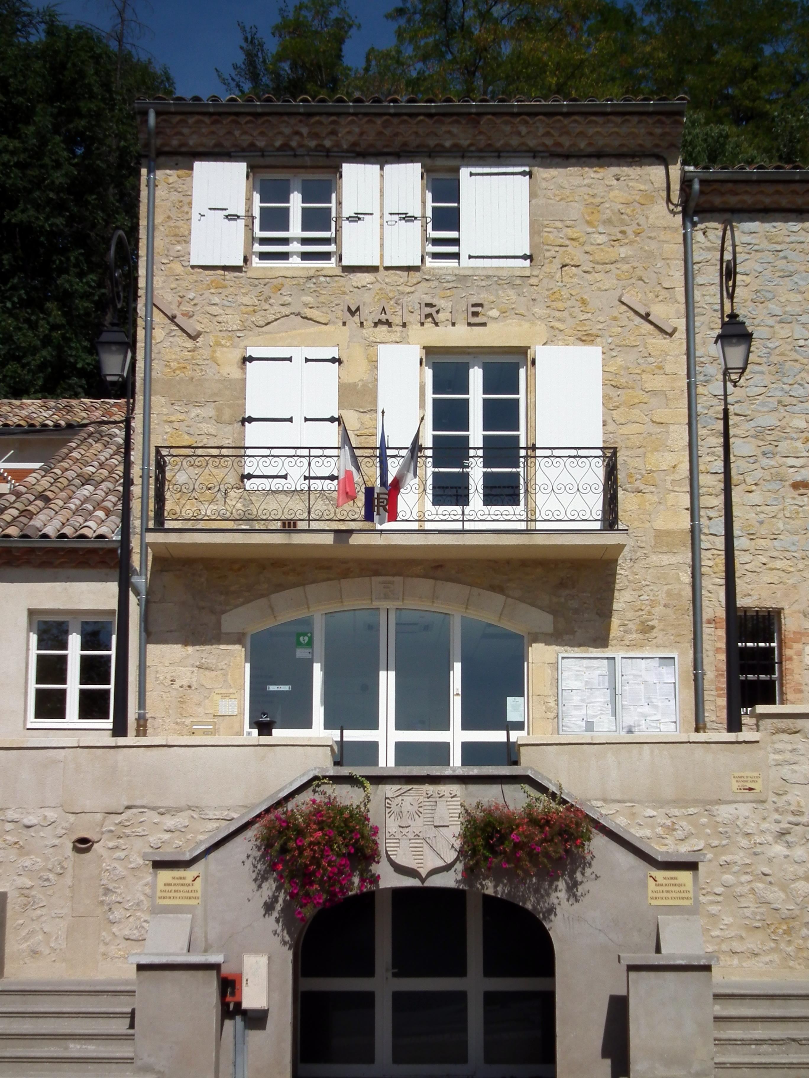 Town hall of Allex - Drôme - France